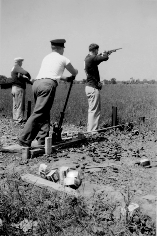 Trap shooting in Ohio. A shooter takes aim as the puller prepares to pull the lever that will launch the clay target.